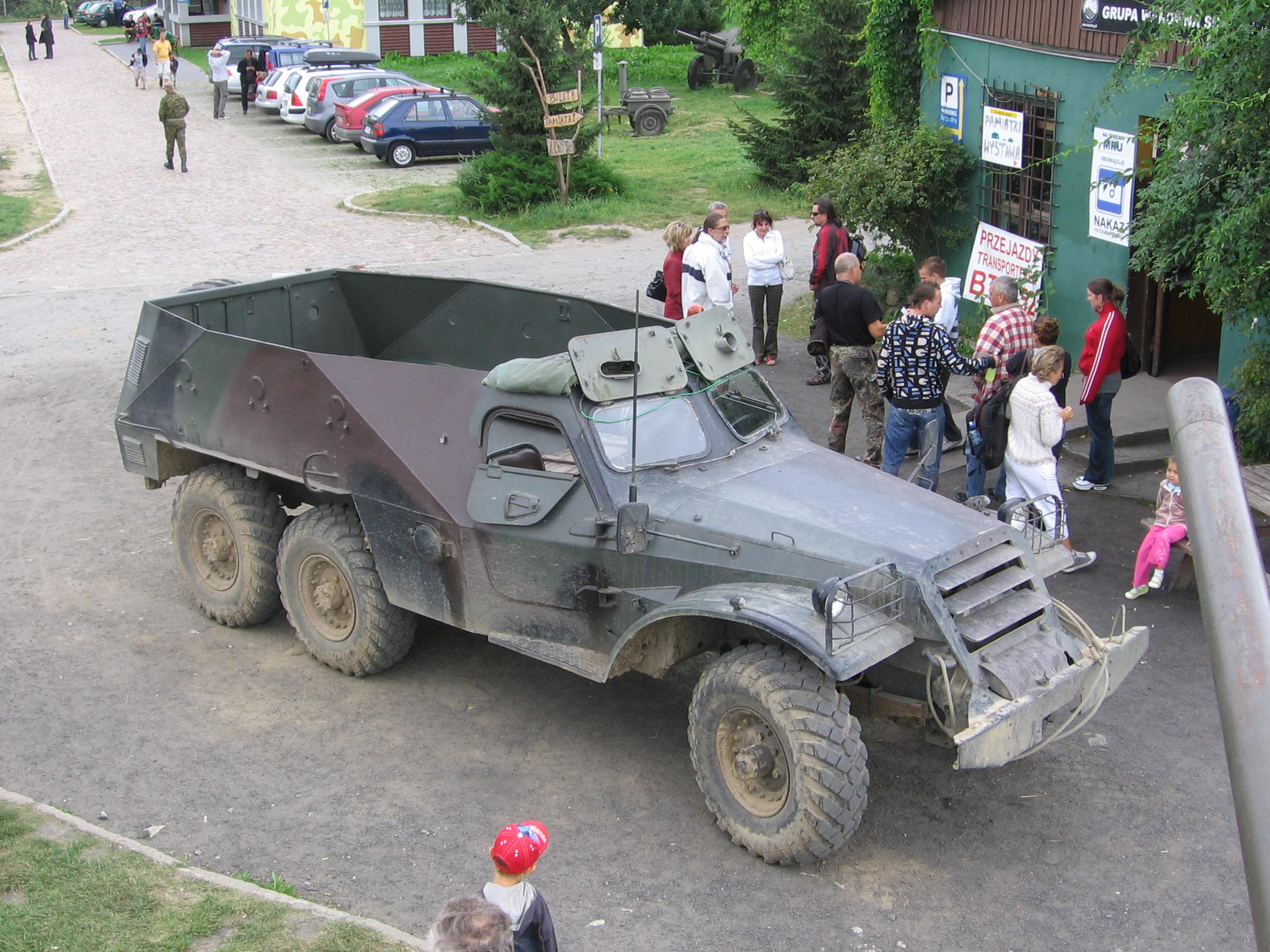 BTR-152 APC at the Międzyrzecz Fortification Region.